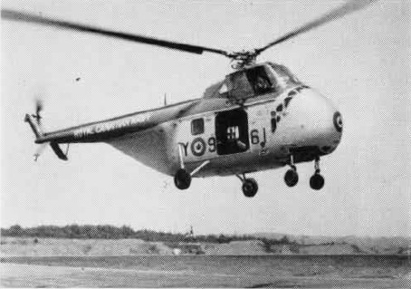 A Sikorsky HO4S (S-55) helicopter of the Royal Canadian Navy in the mid-1950s.